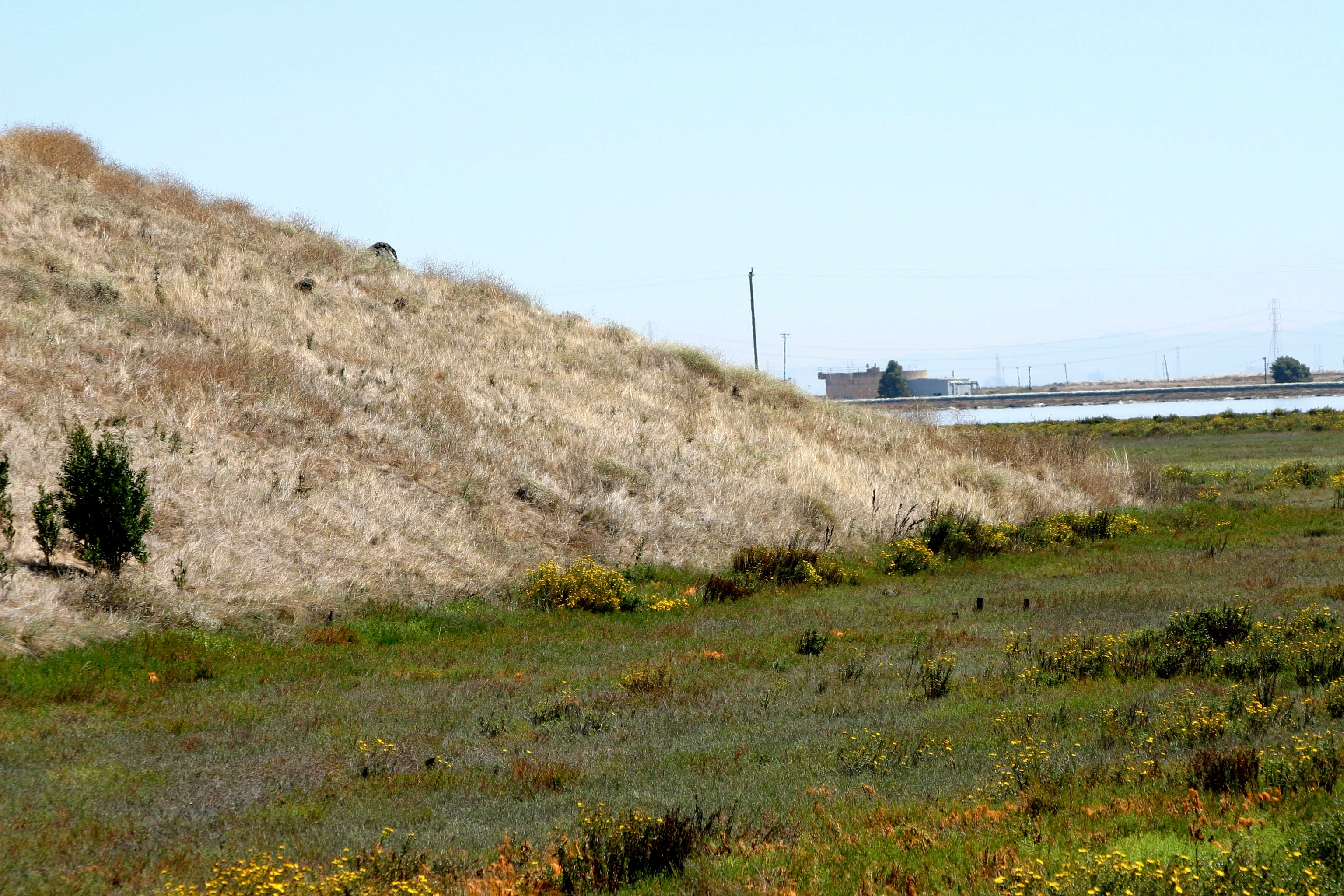 The Don Edwards San Francisco Bay National Wildlife Refuge